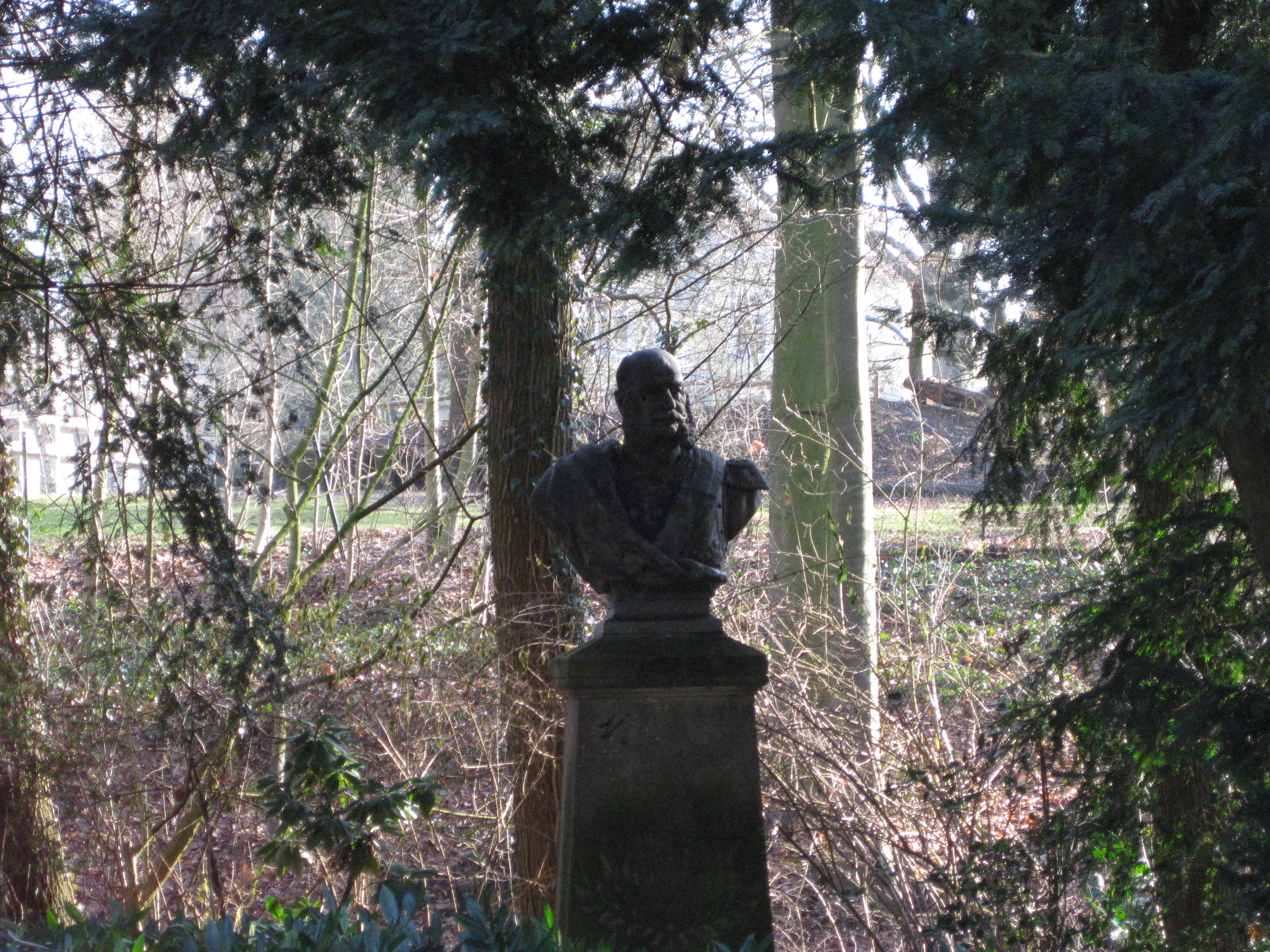 Bust of Wilhelm I. in the municipal park of Versmold